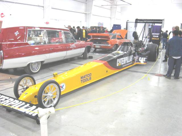 Caterpiller-sponsored dragster, probably gas or alcohol, maybe Top Fuel, at local car show